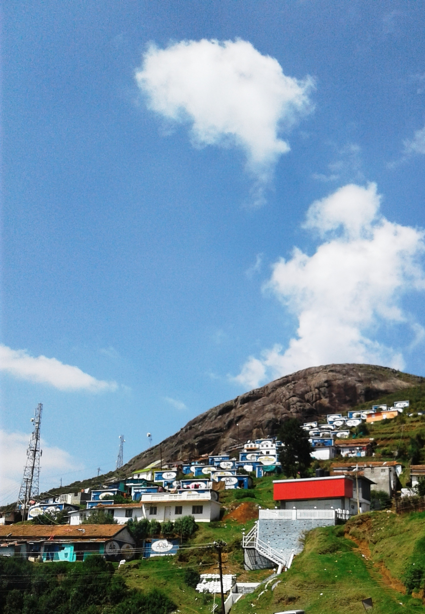 Ooty, Tamilnadu, India.